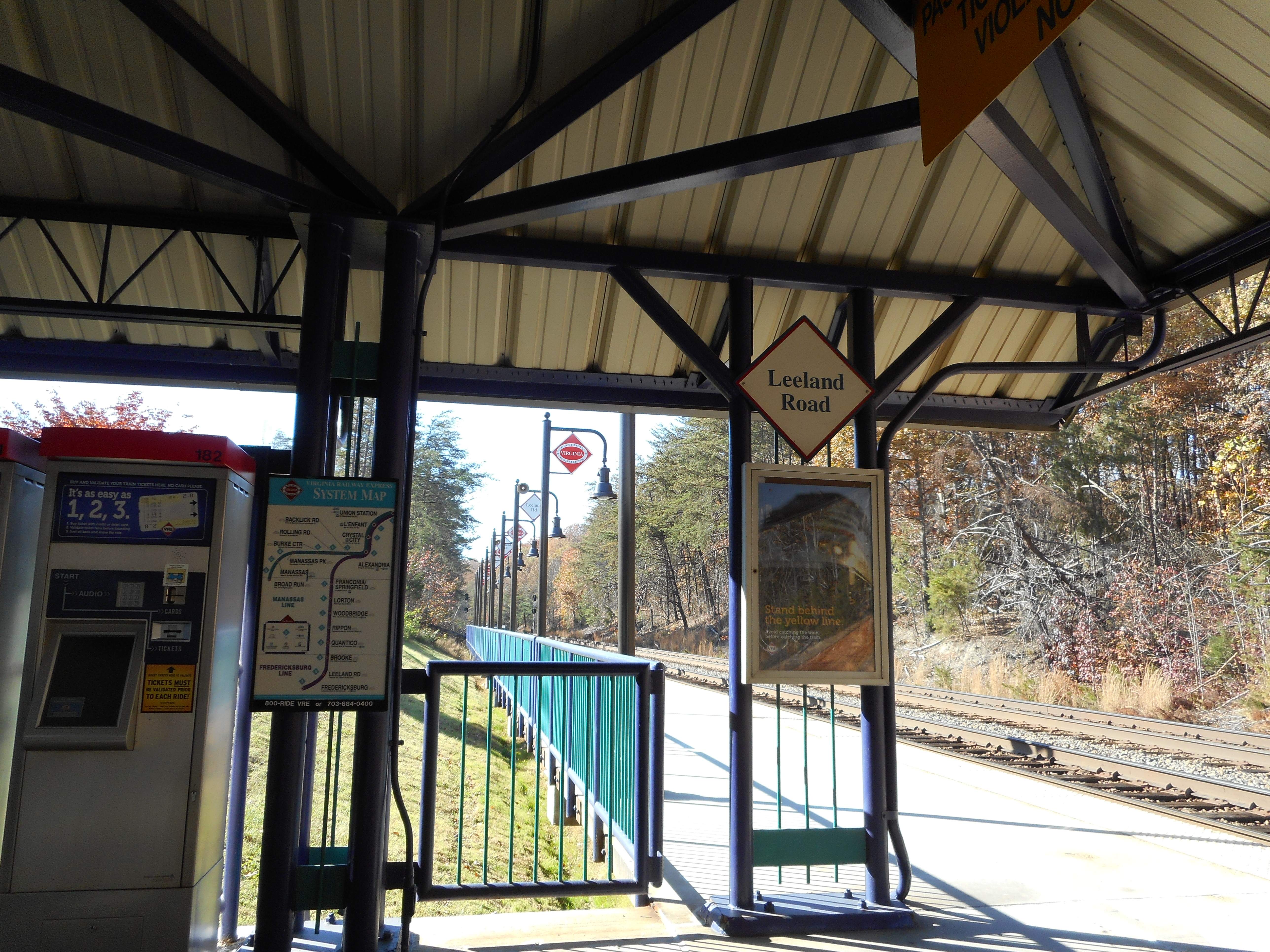 Fredericksburg, Virginia-bound view from the platform at Leeland Road Virginia Railway Express station in Falmouth, Virginia.